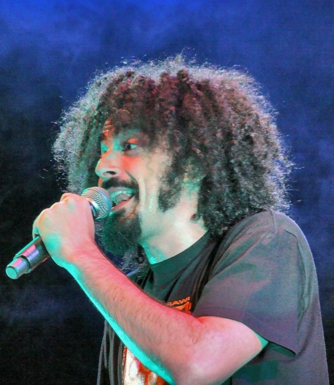 Italian singer Caparezza